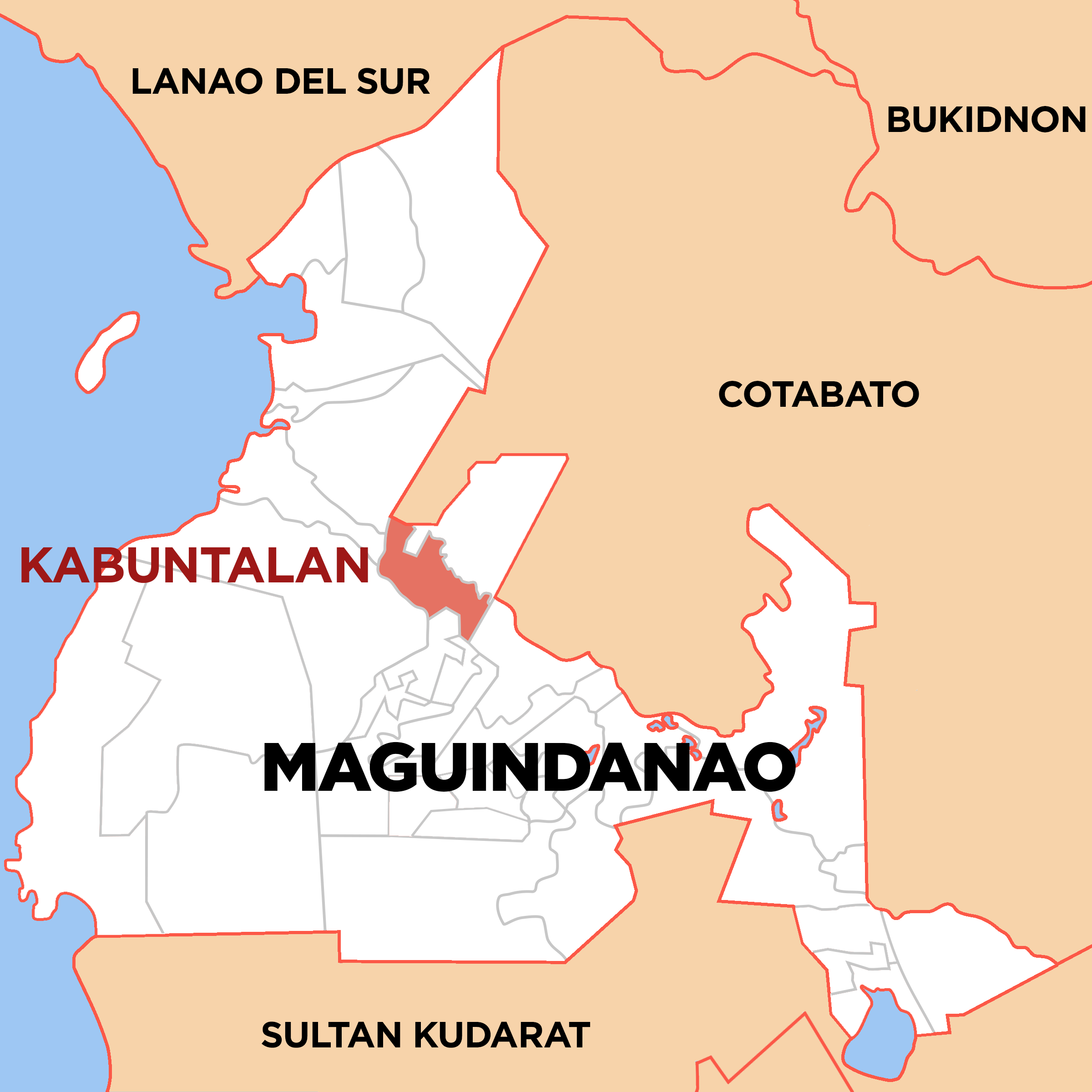 Map of the Maguindanao showing the location of Kabuntalan